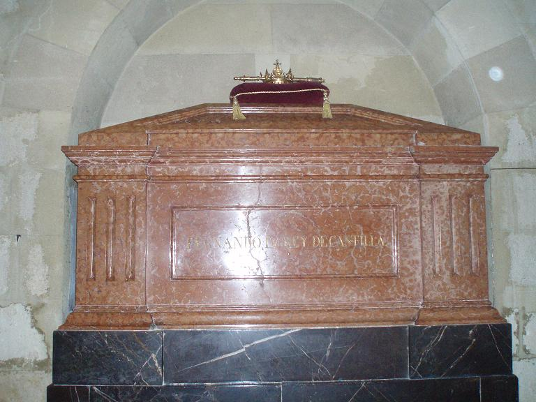 Tomb of the king Ferdinand IV of Castile (1285-1312). Church of Saint Hippolytus of Córdoba, (Spain).